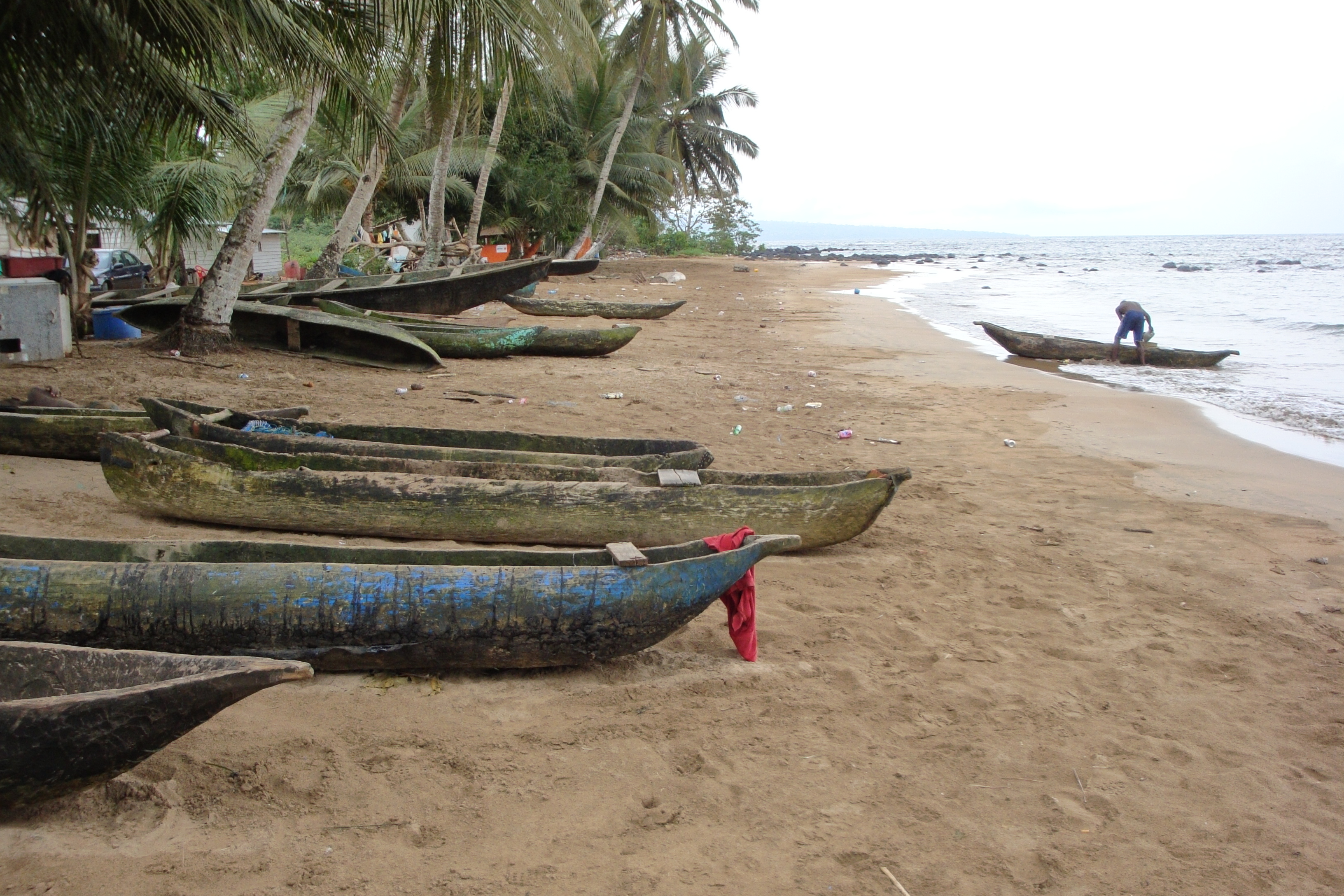 This is an image with the theme "Africa on the Move or Transport" from: Equatorial Guinea